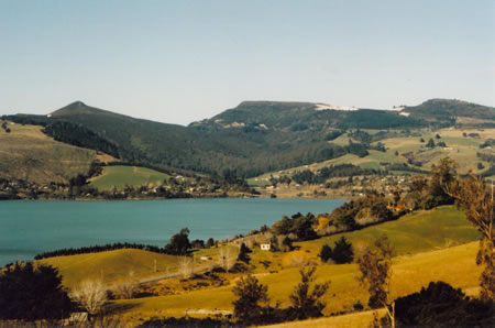 Orokonui Valley, site of Orokonui Ecosanctuary, near Waitati, New Zealand, viewed across Blueskin Bay Photo by Orokonui Ecosanctuary who have released it into the public domain and authorised Nankai to upload it here.